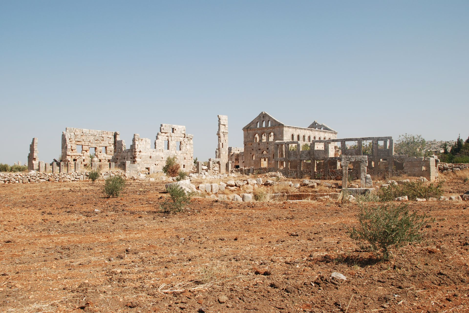 Deir Seman, near Church of Saint Simeon Stylites, Syria. SW convent from southwest